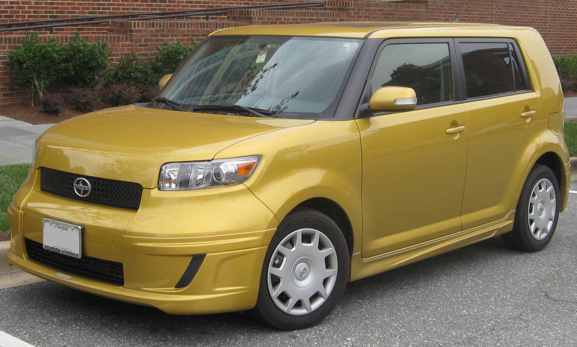 2008 Scion xB photographed in College Park, Maryland, USA.